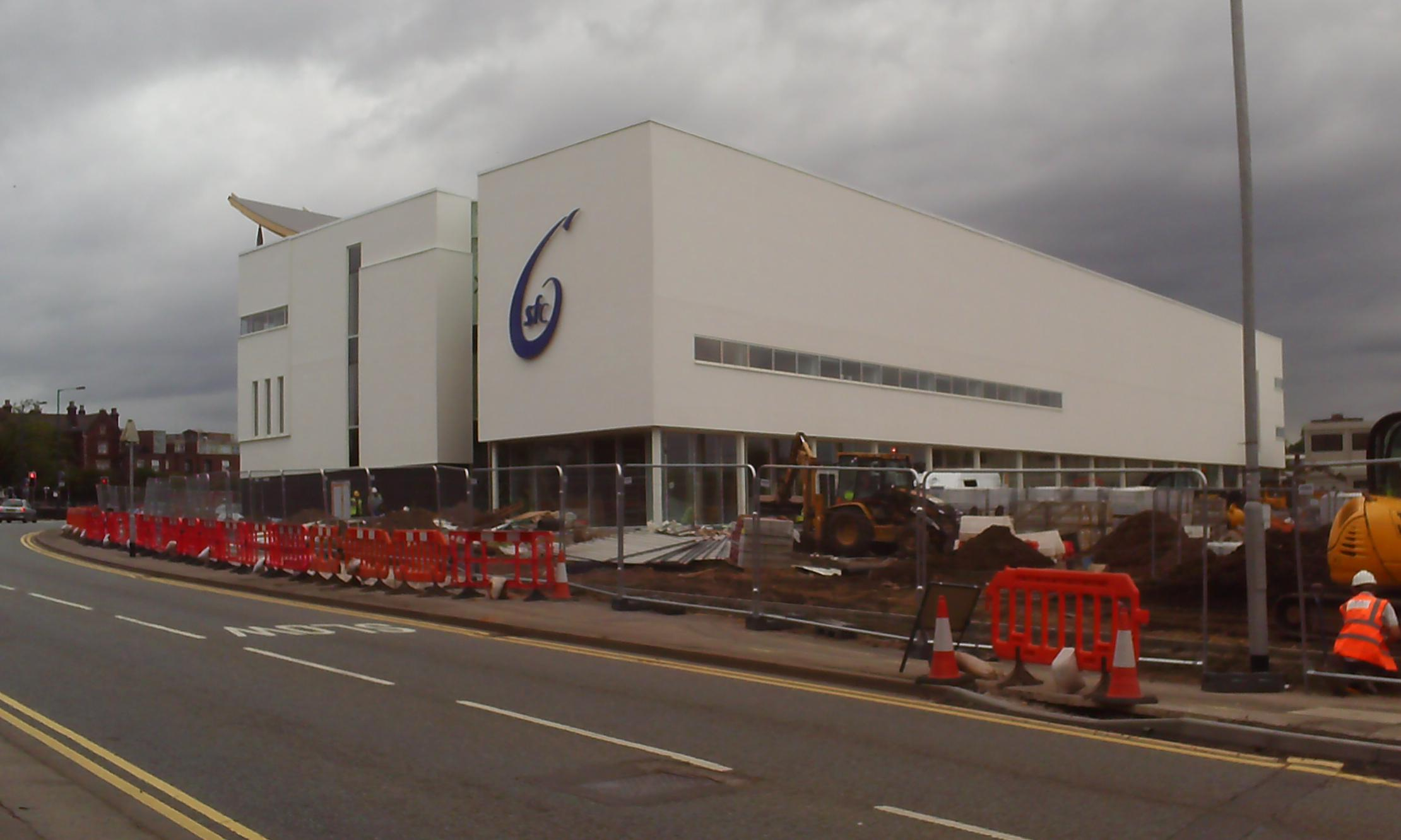 City of Stoke-on-Trent Sixth Form College